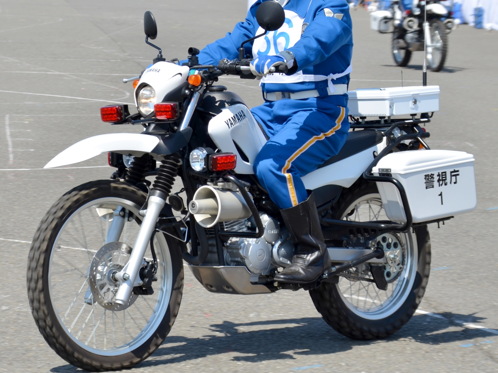 Yamaha XT250P